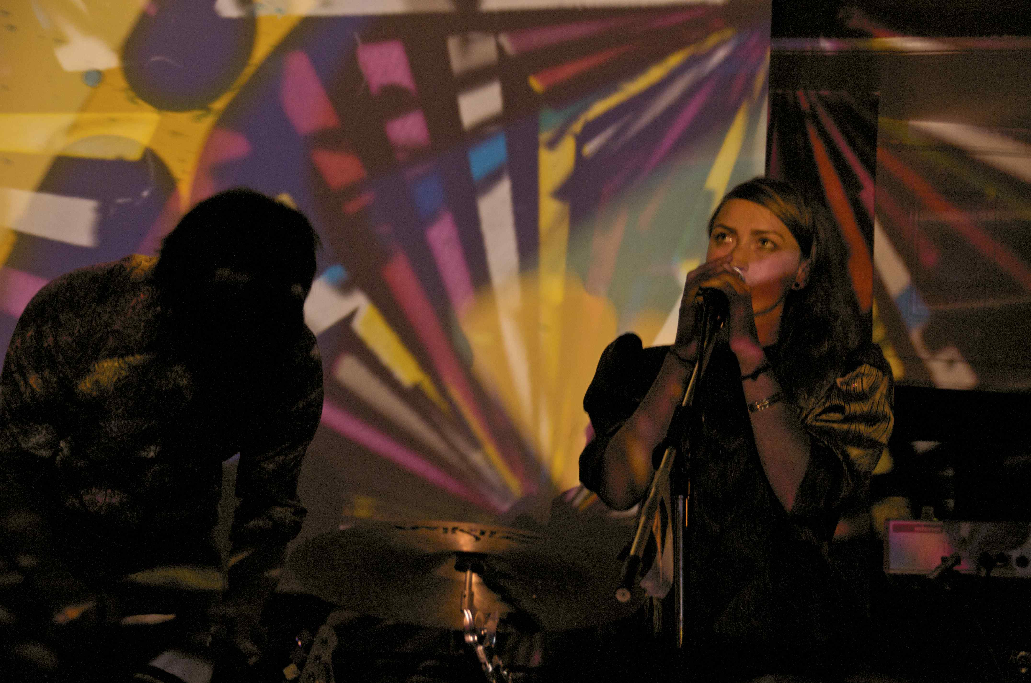 at the Psychedelic Double Bubble, the Lectern, Brighton. Brought to Brighton by Put It On - Sept 2009.